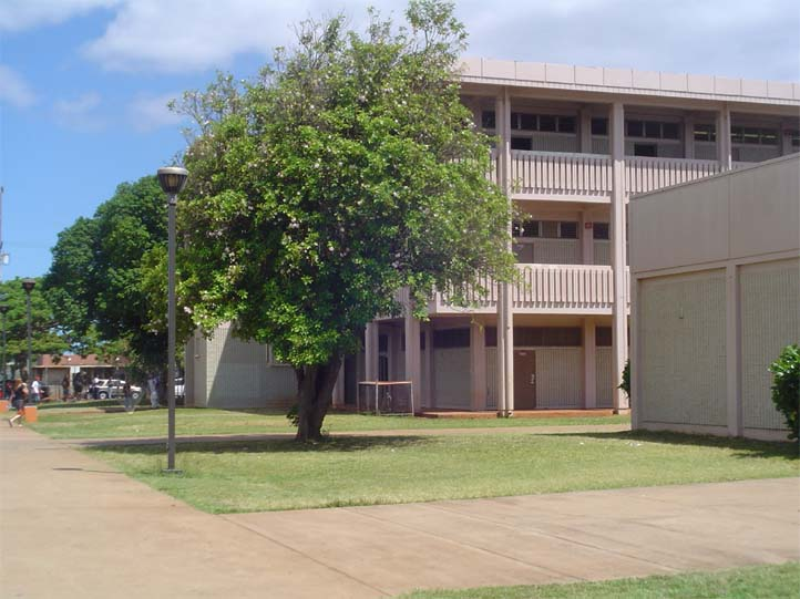 Digital photo of the James Campbell High School campus.